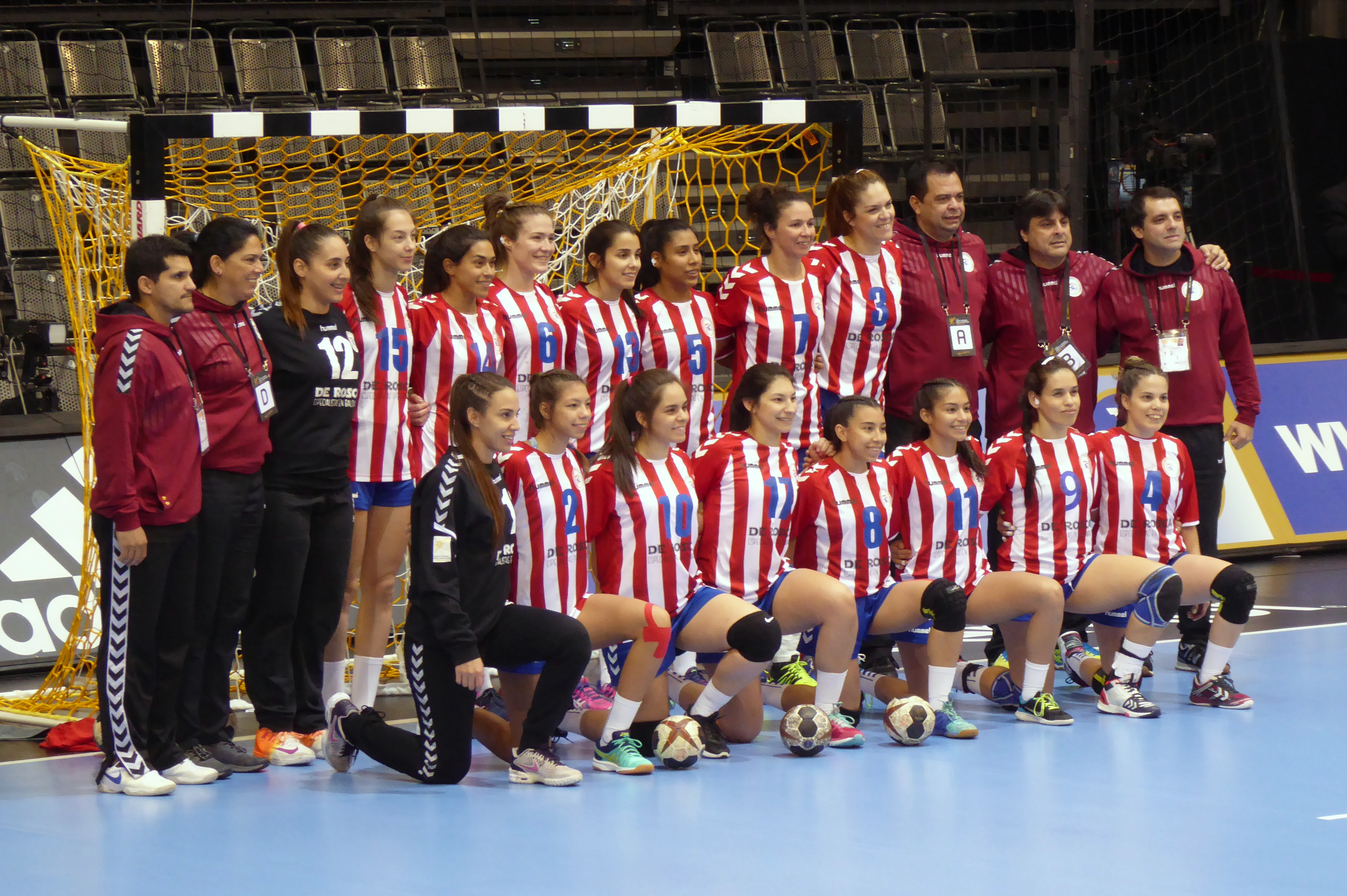 Team photo of Paraguay before their last group game at the 2017 World Women's Handball Championship against Angola (28-32)